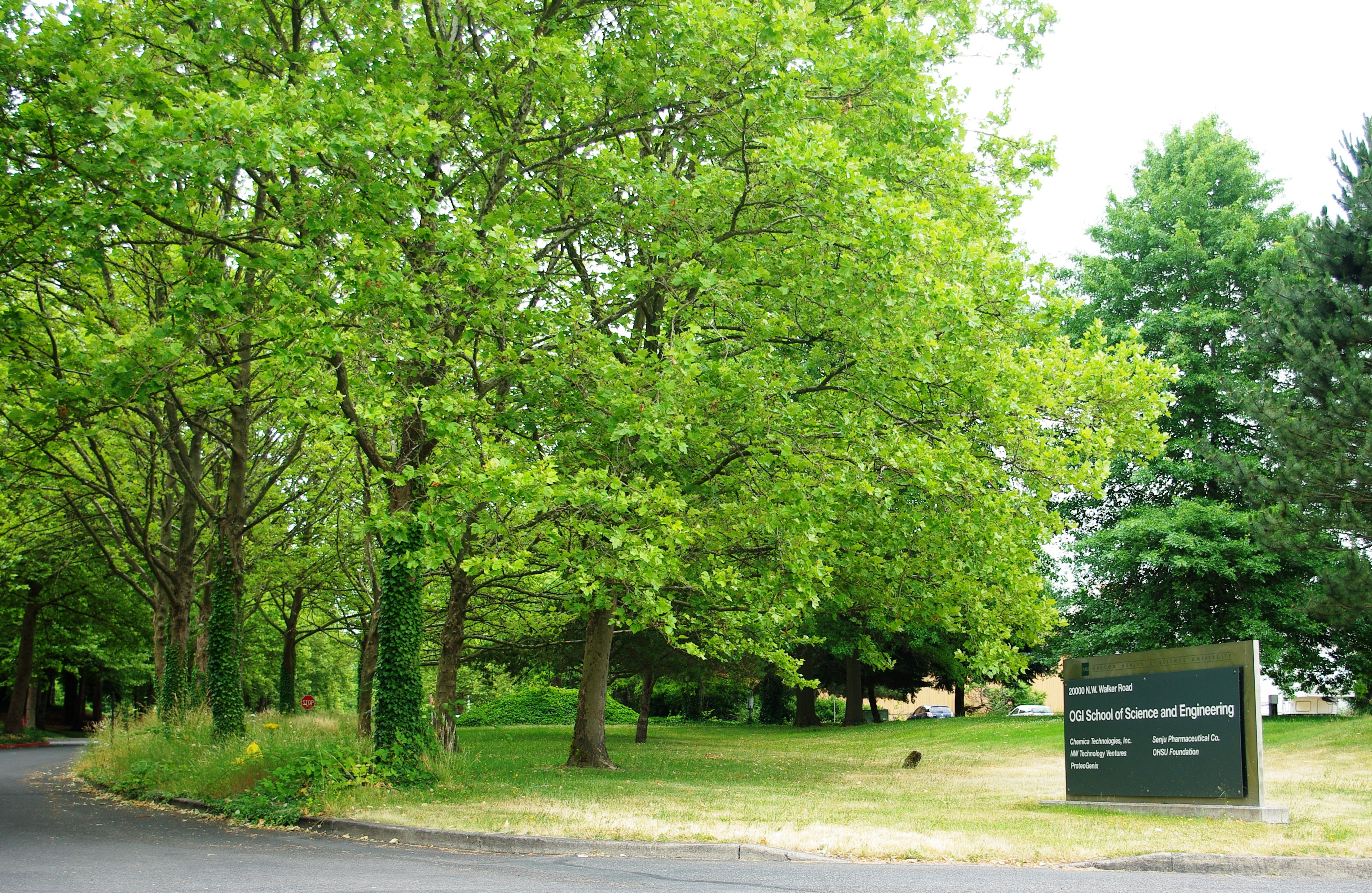 Oregon Graduate Institute in Hillsboro, Oregon